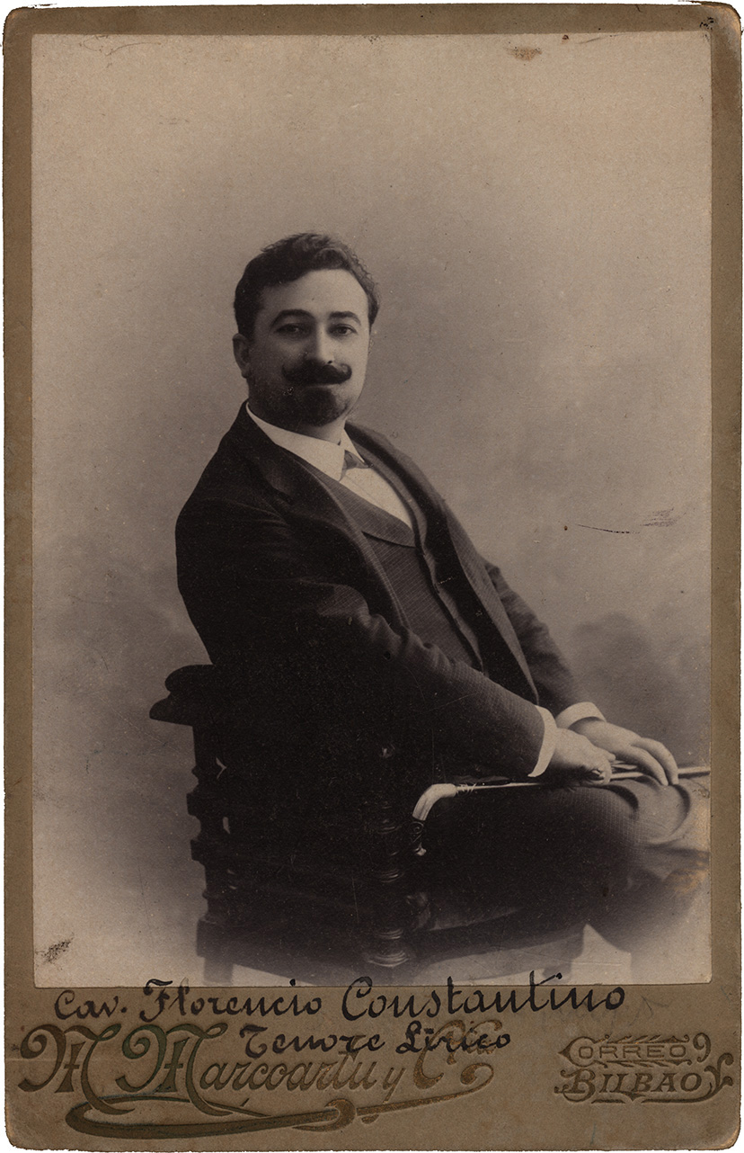 Portrait of Florencio Constantino, tenor (1869-1919). Photo by M. Marcoartu, Bilbao, before 1919.